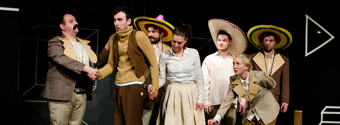 Scene from the theatrical spectacle "Drive to go," director Teddy Moskov, 2014